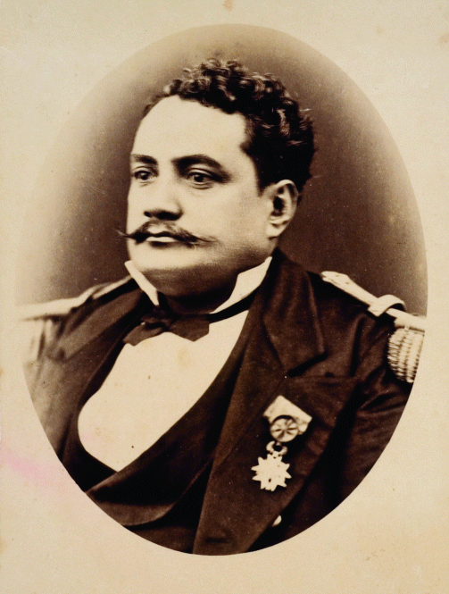 Teriitaria Teratane Pomare V. (1839 - 1891) The last King of Tahiti.